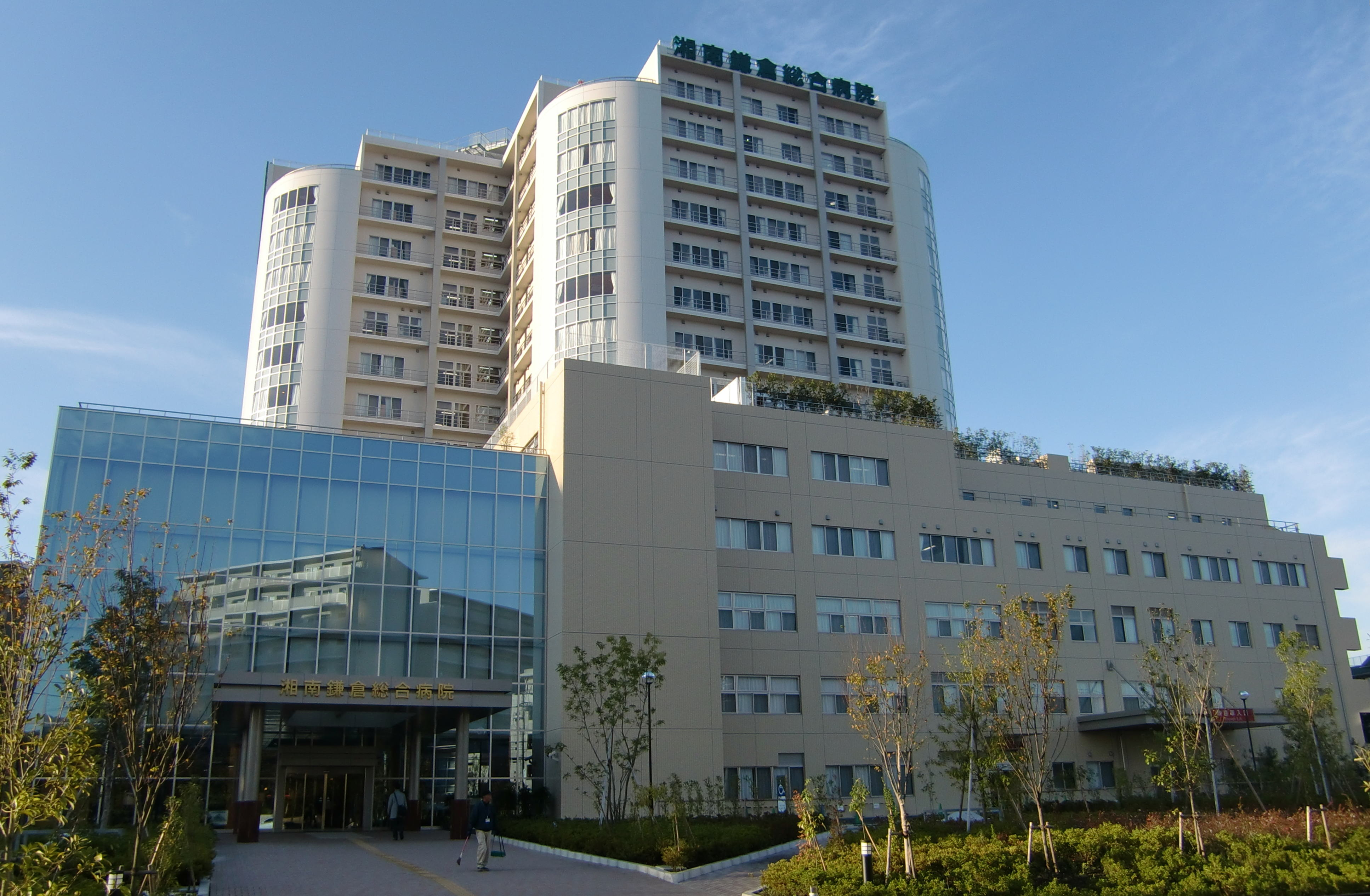 Shonan Kamakura General Hospital New Hall